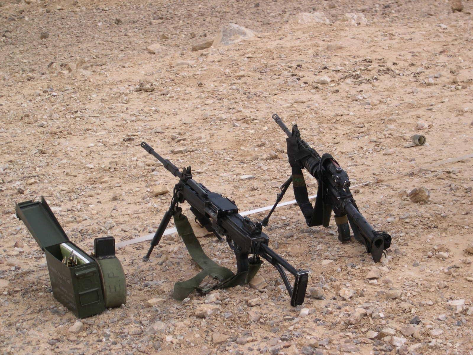 IMI Negev machinegun (left), in use by the Israel Defense Forces